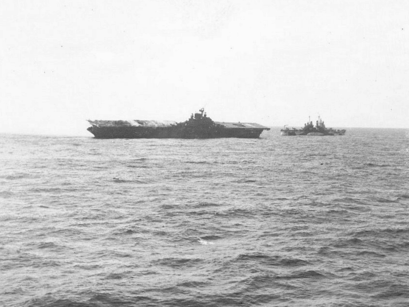 Still smoking, the U.S. Navy aircraft carrier USS Franklin (CV-13) is towed from the scene of the disatrous air attack on 19 March 1945 by the heavy cruiser USS Pittsburgh (CA-72) before the crewmen aboard the carrier effected emergency engine repairs.